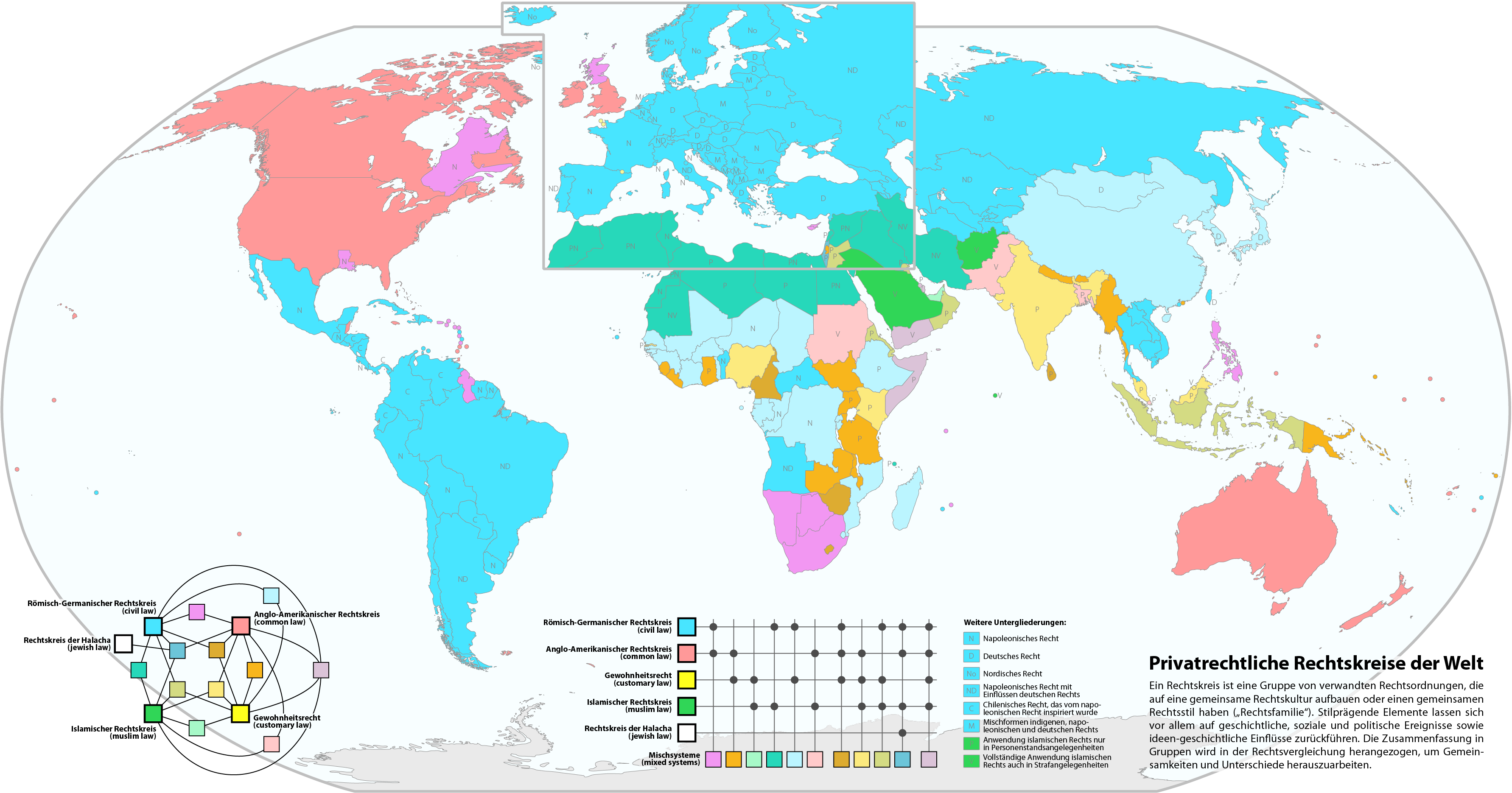 Map of the legal systems of the world